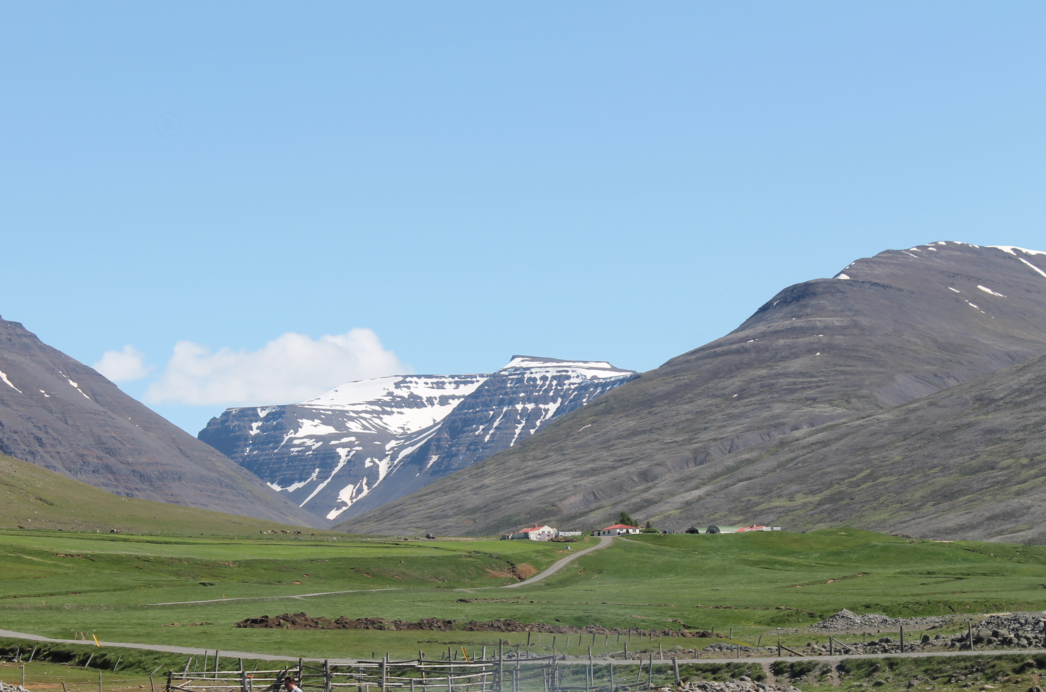 The farm Djúpidalur in Skagafjarðarsýsla, Northern Iceland.